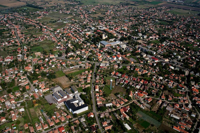 The photo shows the view of the town of Hajdúdorog, Hungary. The large, straight, vertical road in the middle of the picture is called Ady Endre street. On the left side of this street you can see the buildings of the Saint Basil Educational Center's secondary school. If you follow the line of the street further you can find the centre of the town with the Greek Catholic Cathedral; the Reformed Church and the primary school's building of the Saint Basil Educational Center.